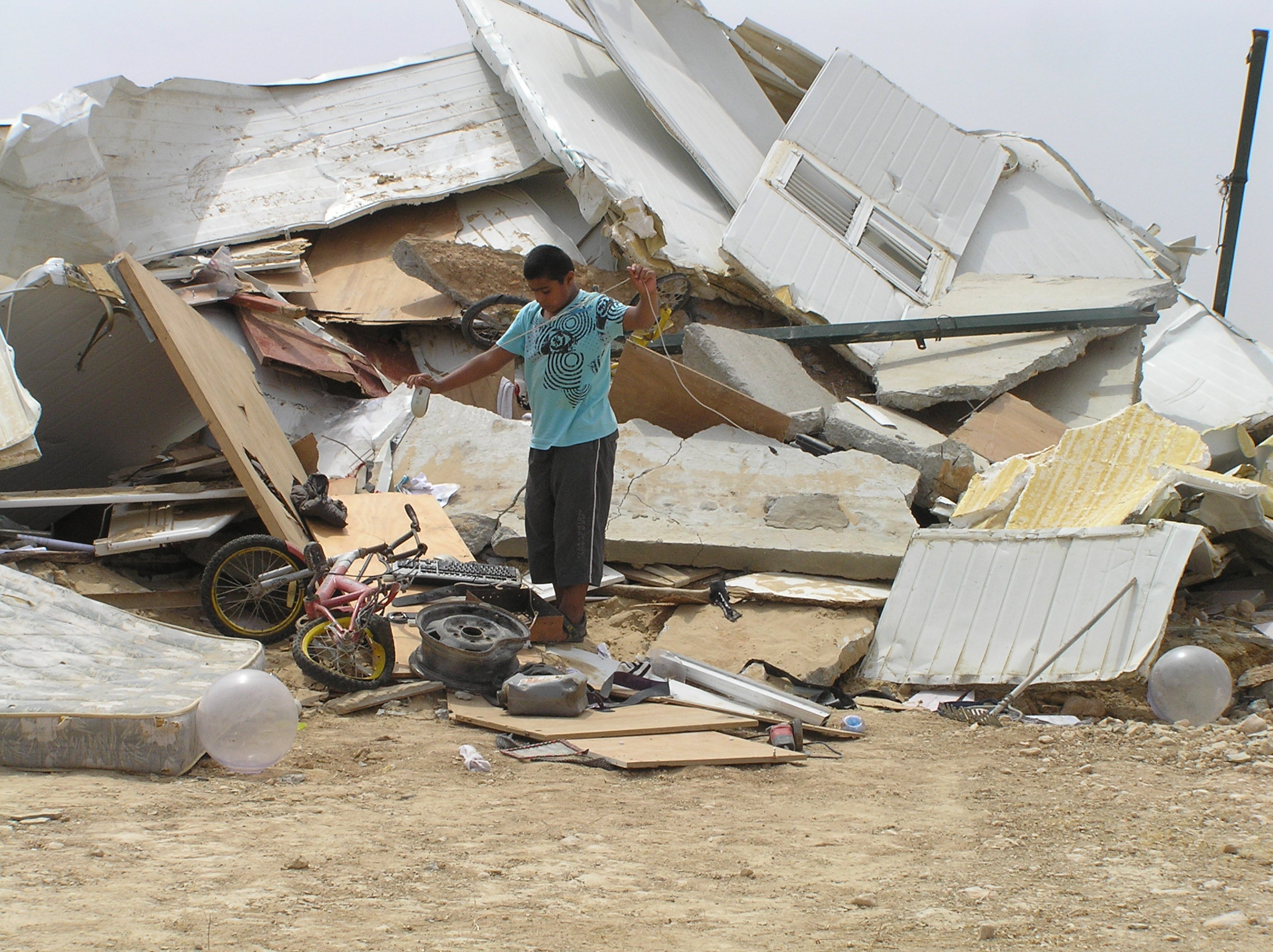 A demolished house in the unrecognized Bedouin village of Al-Araqeeb, few days after all the houses of the village were demolished by Israeli law enforcements.